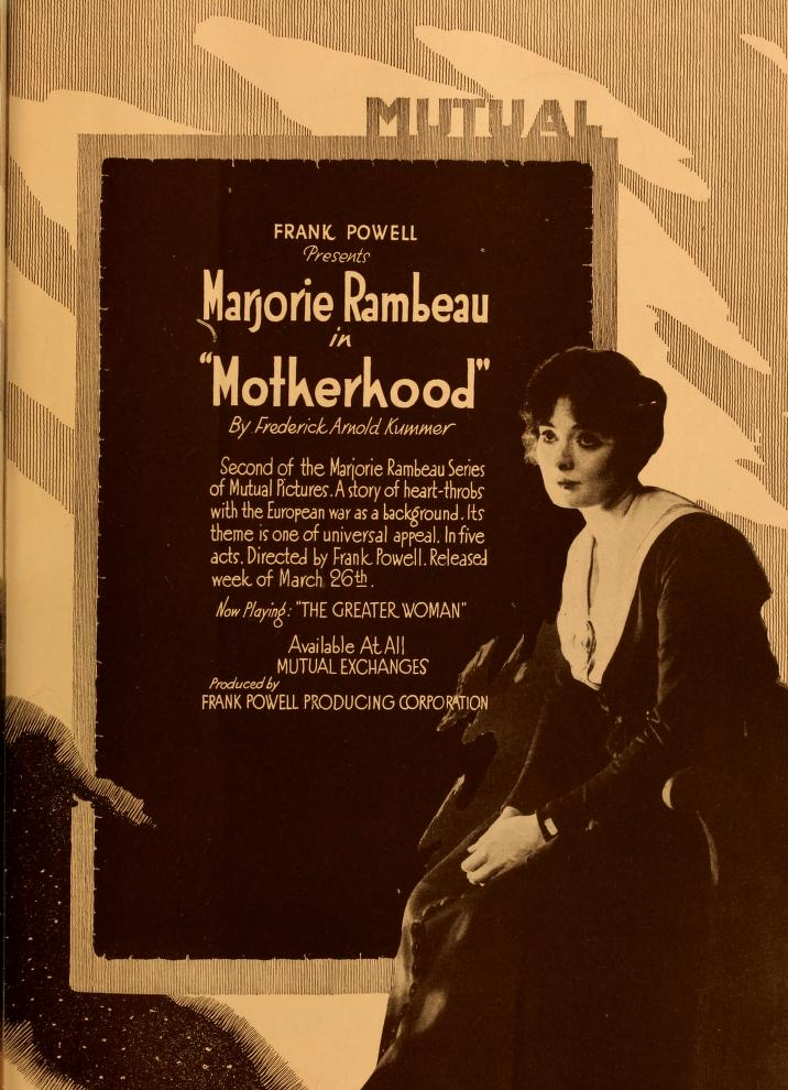 Advertisement in Moving Picture World for Motherhood (1917) (note: there were two films with that name in 1917).